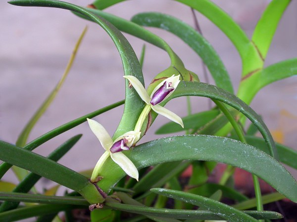 Heterotaxis equitans